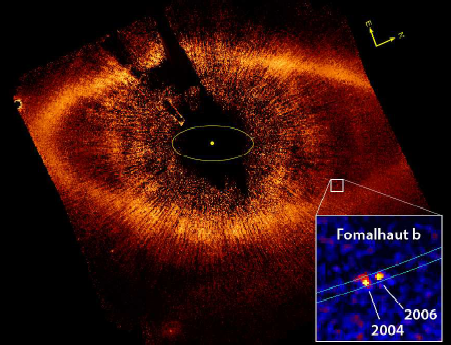 Fomalhaut b